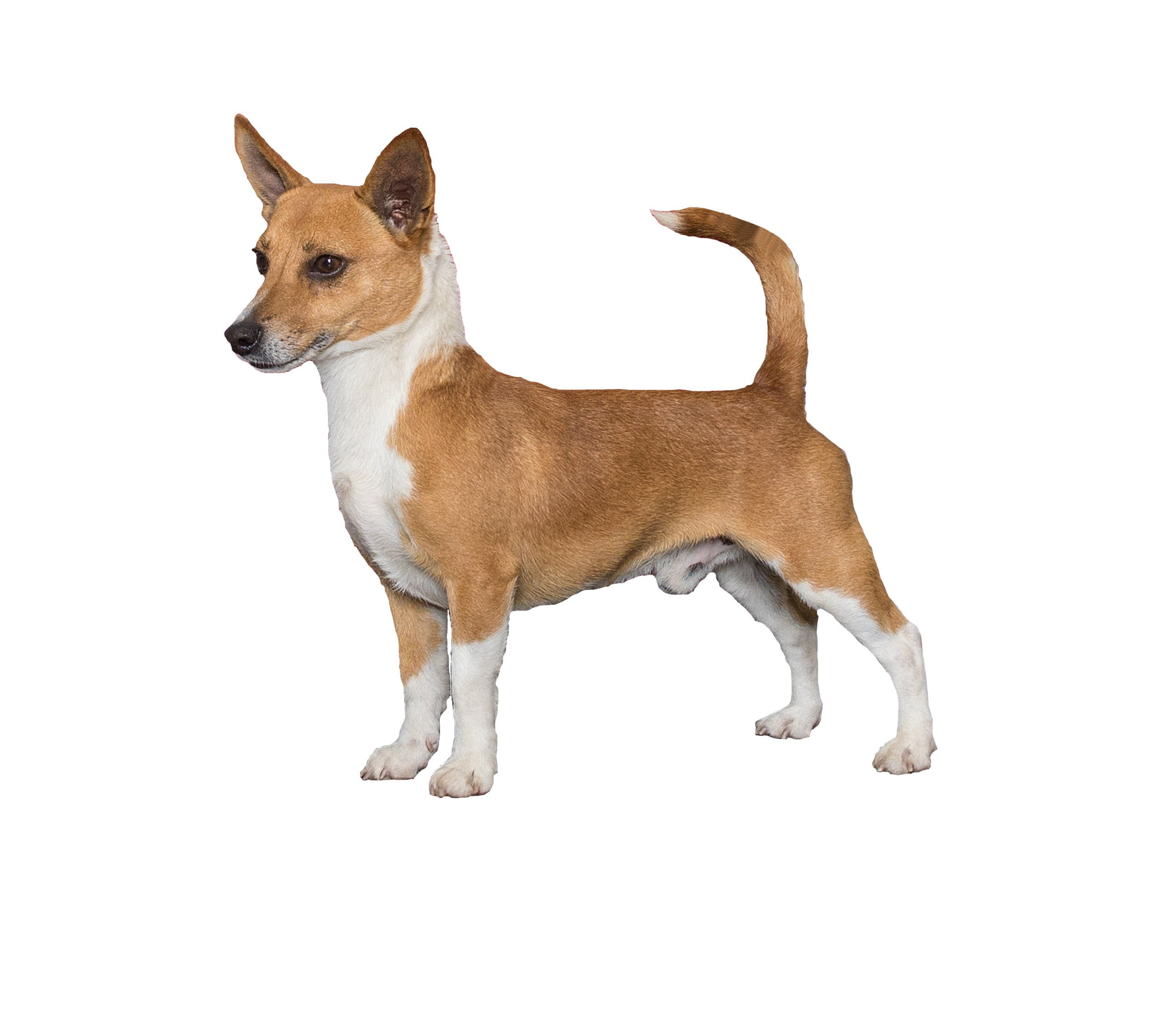 Smooth Coat Portuguese Podengo Pequeno